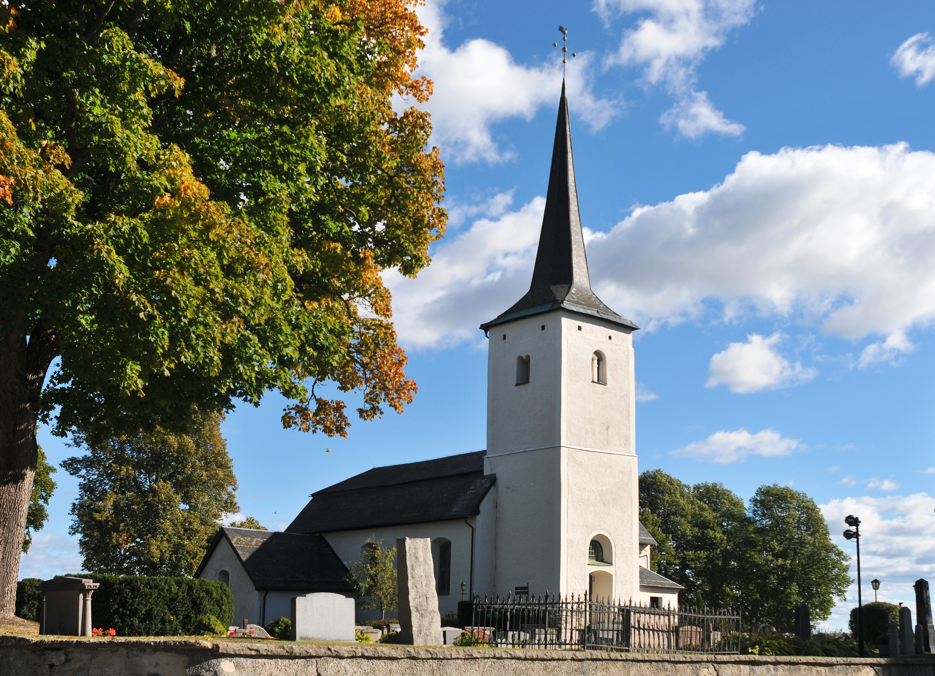 Gällersta Church, 2013.